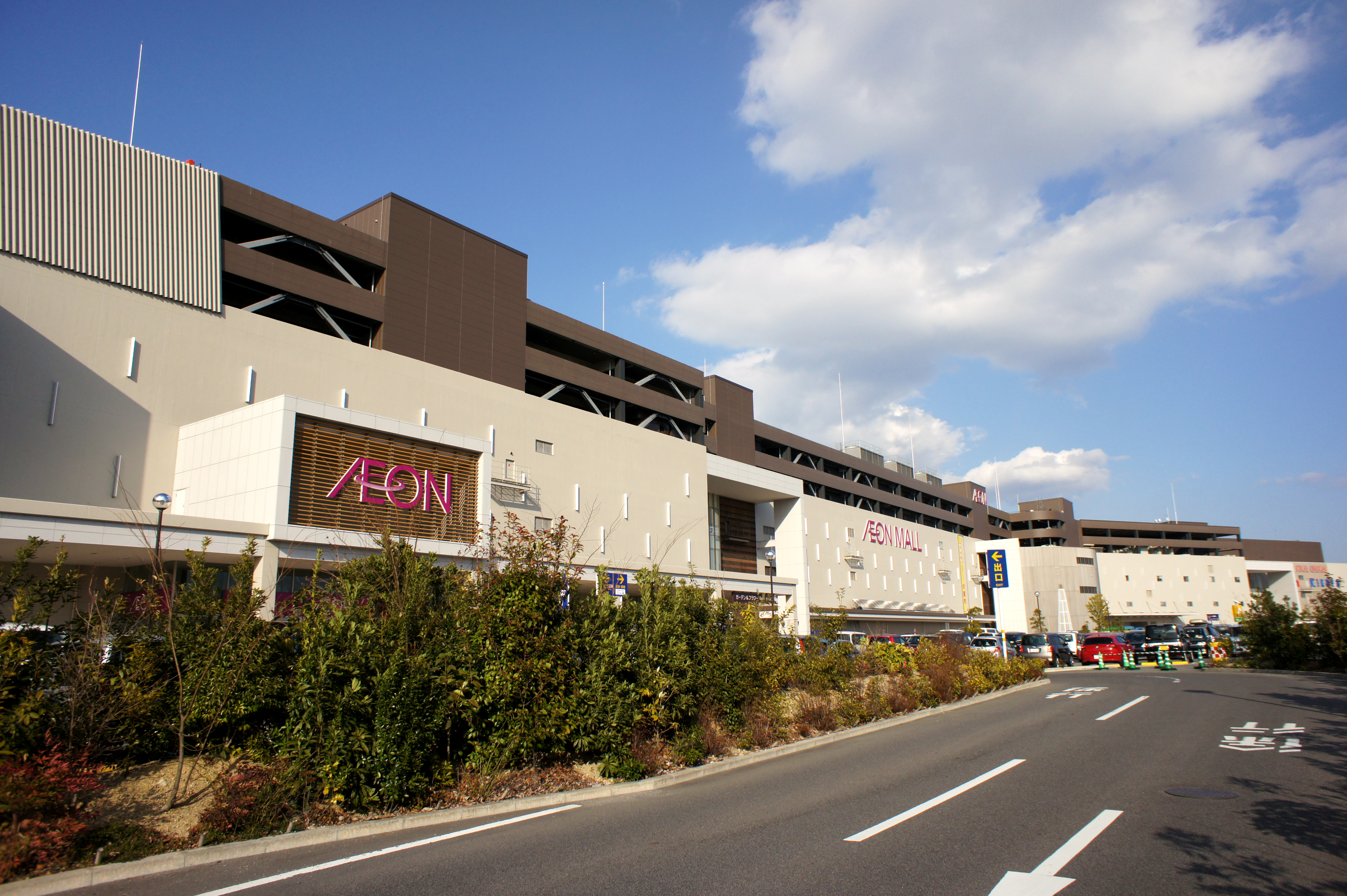 AEON MALL Kusatsu, 300 Niihamacho Kusatsu-City Shiga JAPAN.